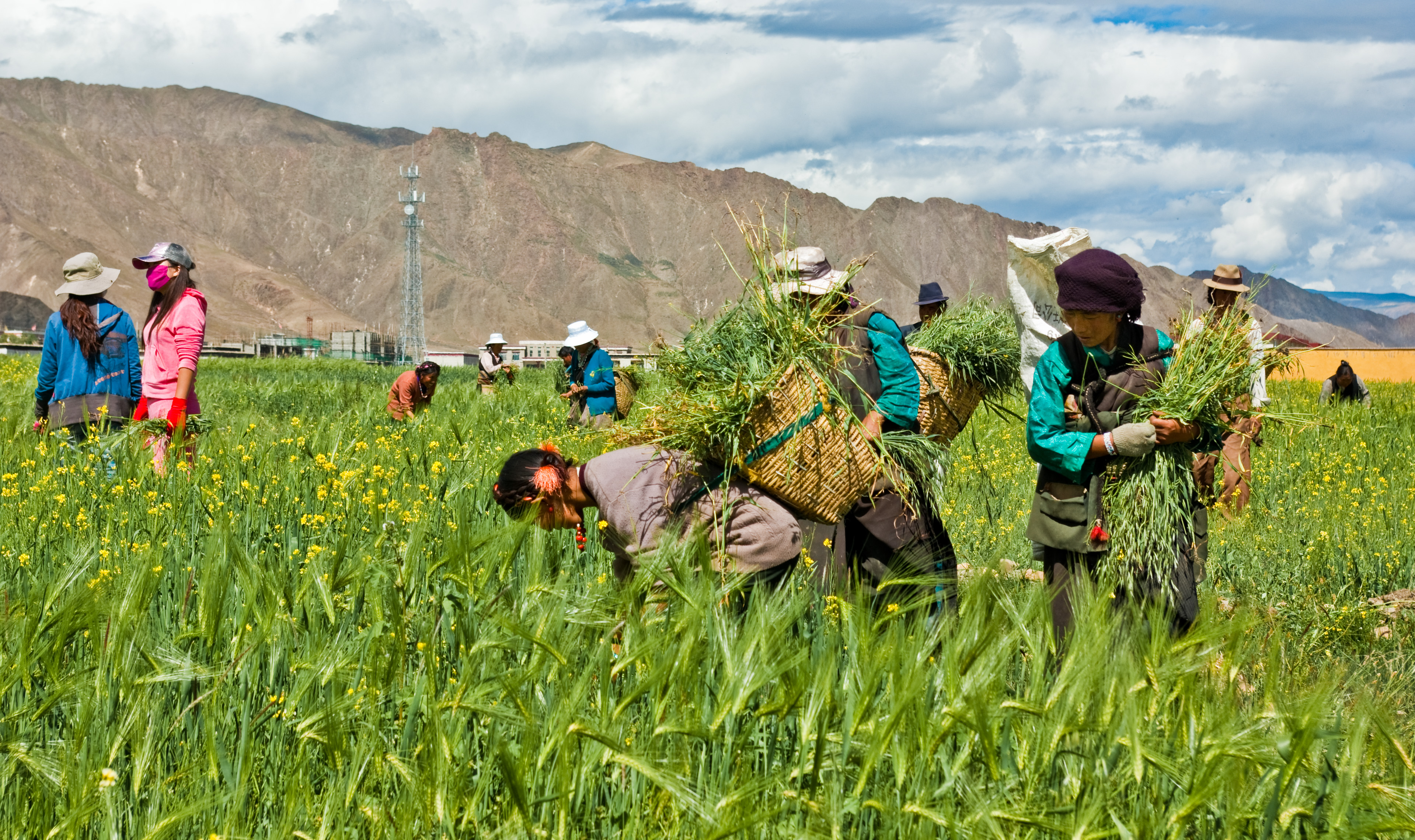 Farmer in Tibet